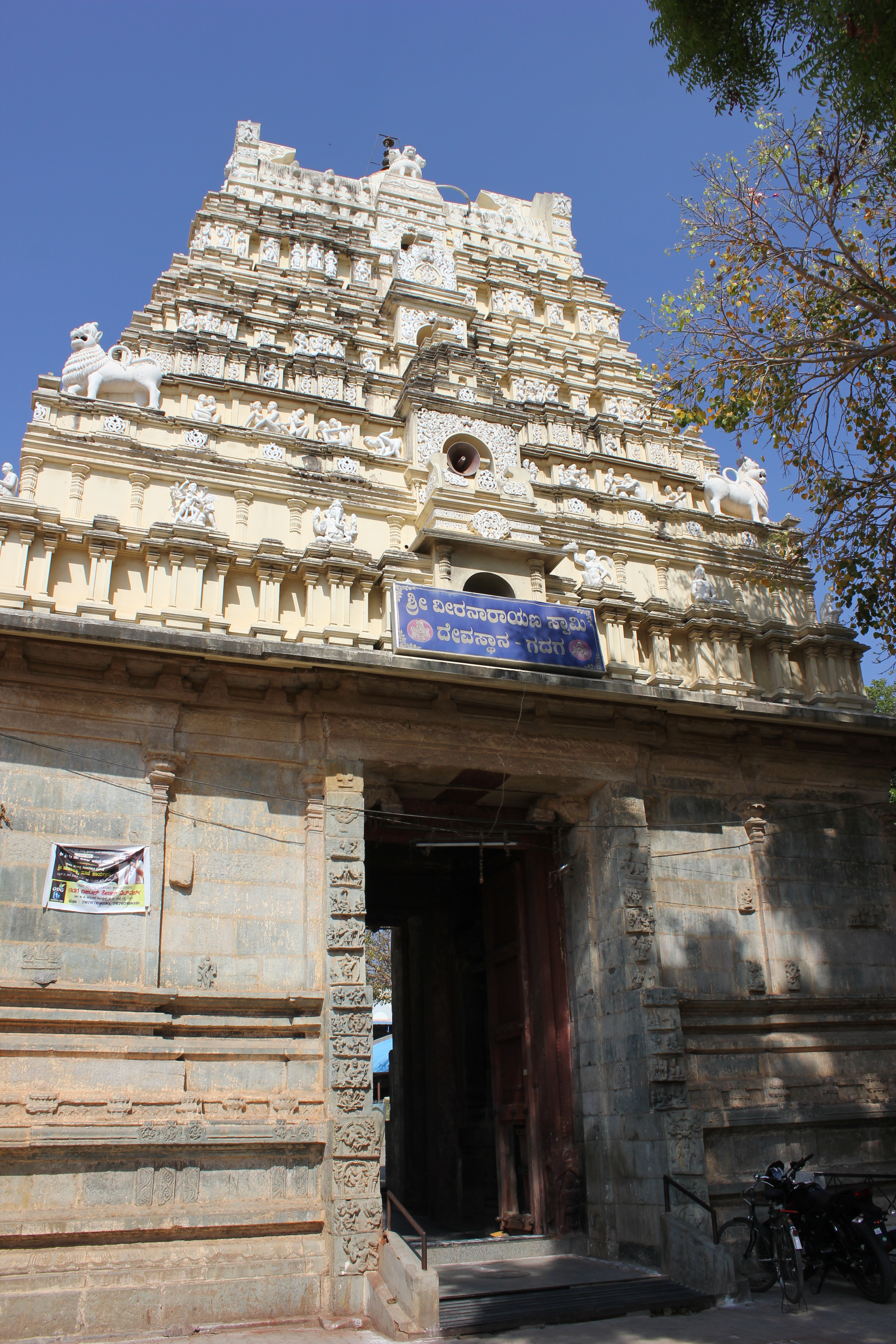 This photograph was taken at the Veeranarayana temple built by Hoysala king Vishnuvardhana in Gadag city, Karnataka state, India